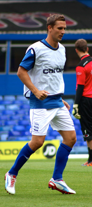 Lovenkrands photo vs Antwerp